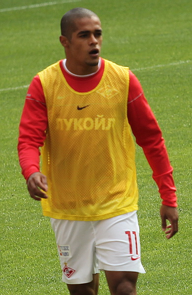 Welliton